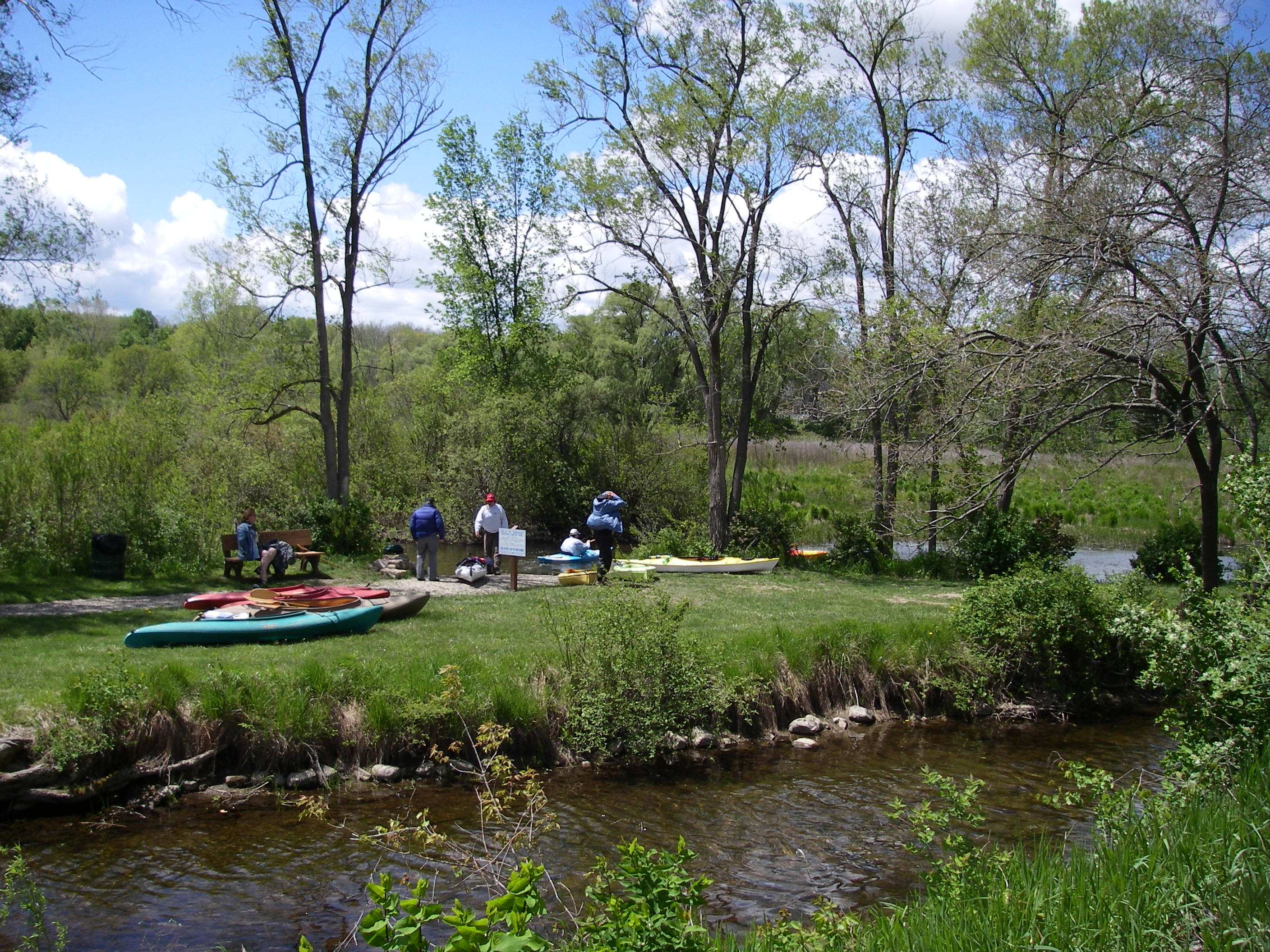 Canoe & Kayak launch site for Shiawassee River at WaterWorks Park in Holly, Michigan. Part of the Shiawassee River Heritage Water Trail.